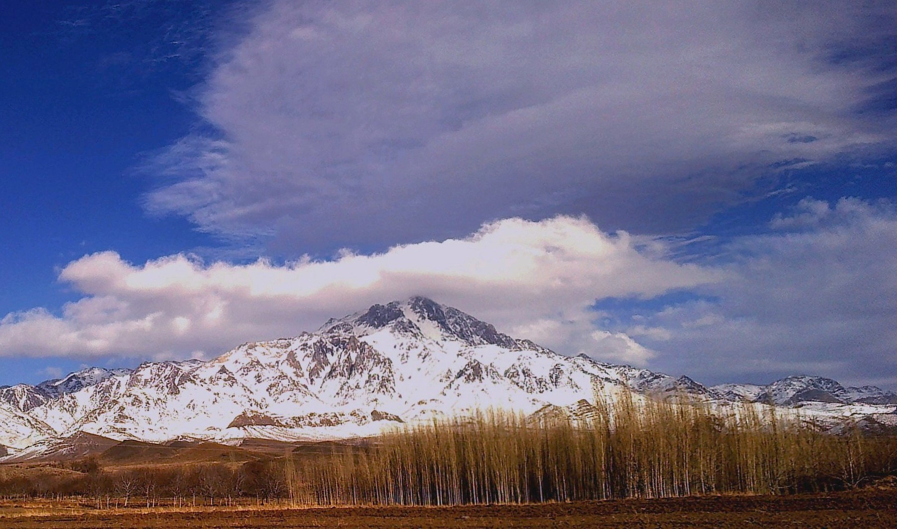 منظره زمستانی کوه شاه از روستای کیسکان